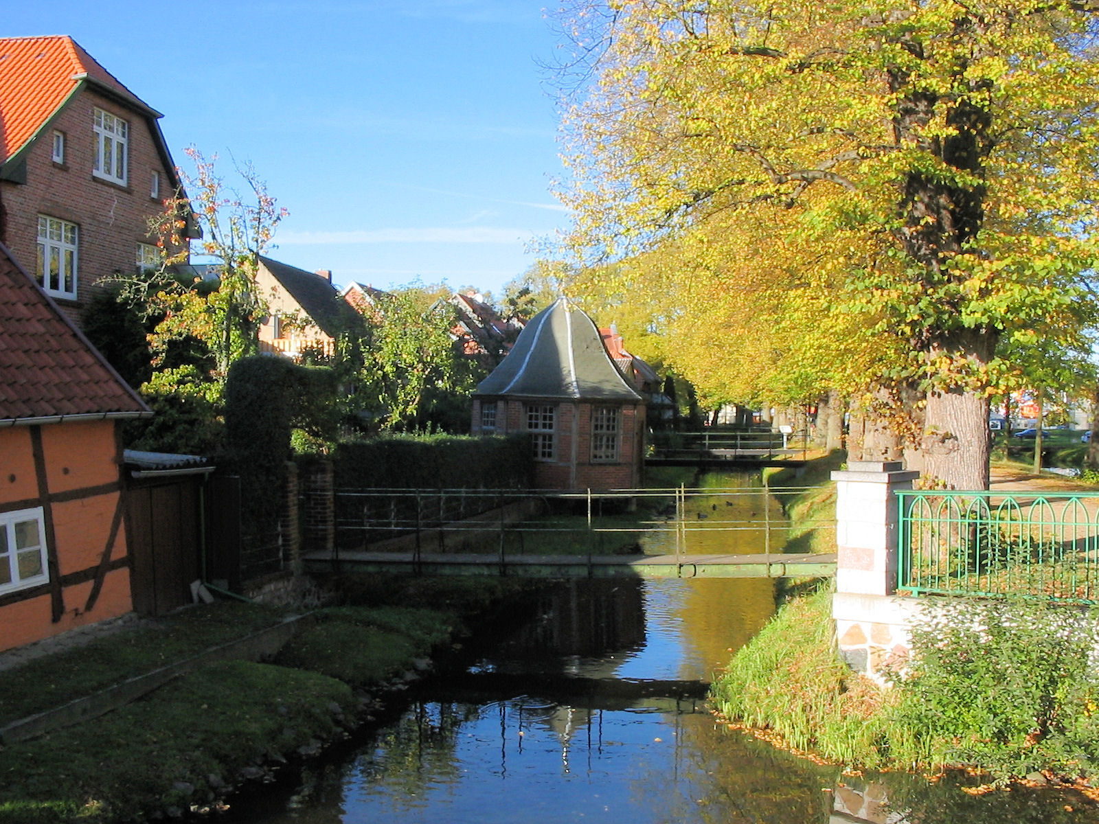 Ditch around city of Boizenburg, district Ludwigslust, Mecklenburg-Vorpommern, Germany